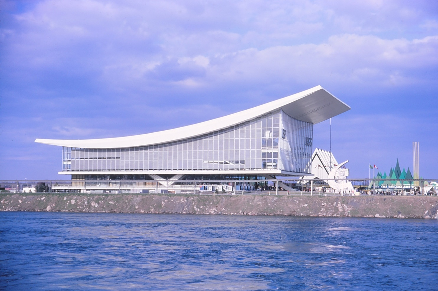 Expo 67, USSR Pavilion, on Notre-Dame Island. In background on the right, the Steel and Canadian Pulp and Paper Industry pavilions. Montréal, Québec, Canada.